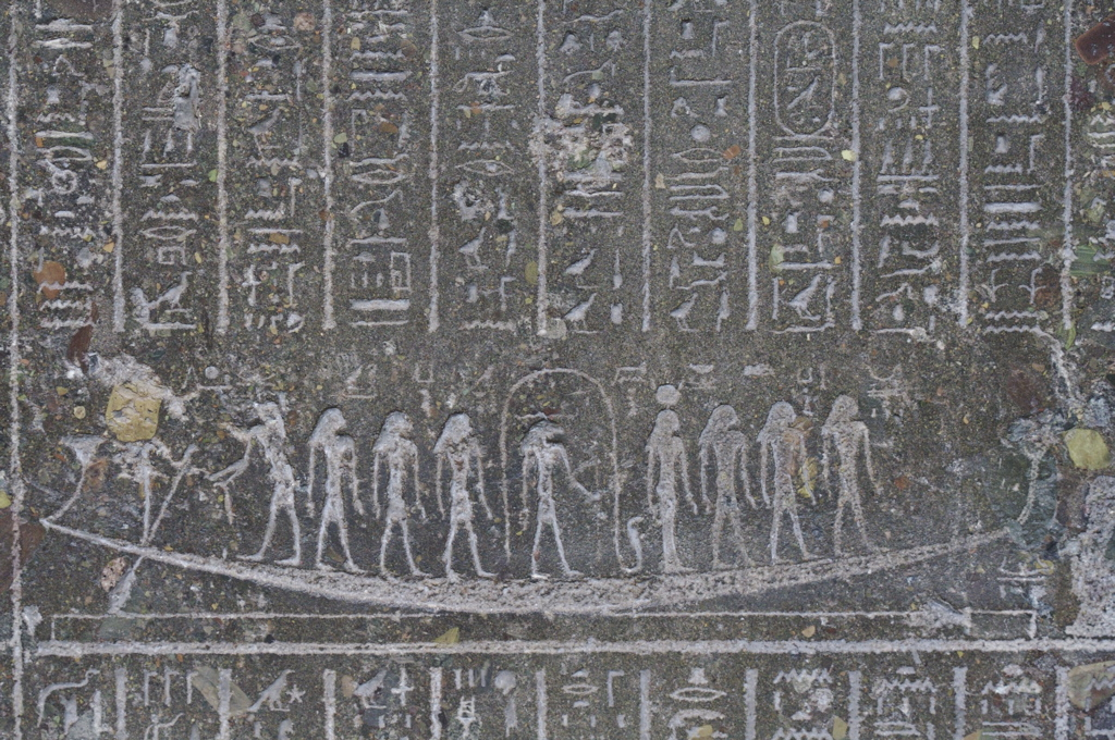 I had a wonderful day at the British Museum with CoryQ (of MonkeyRiverTown) and his wife Mary. These are everything I shot that day, unedited and uncleaned, except for shrinking them some to spead up the upload.